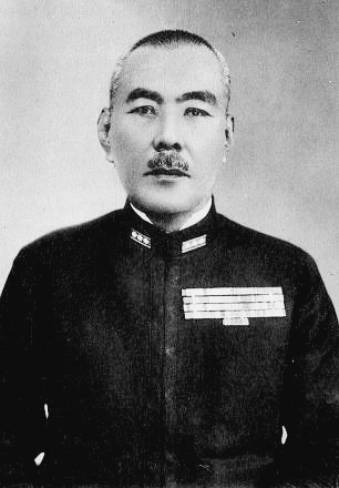 Koshirō Oikawa is an admiral in the Imperial Japanese Navy.